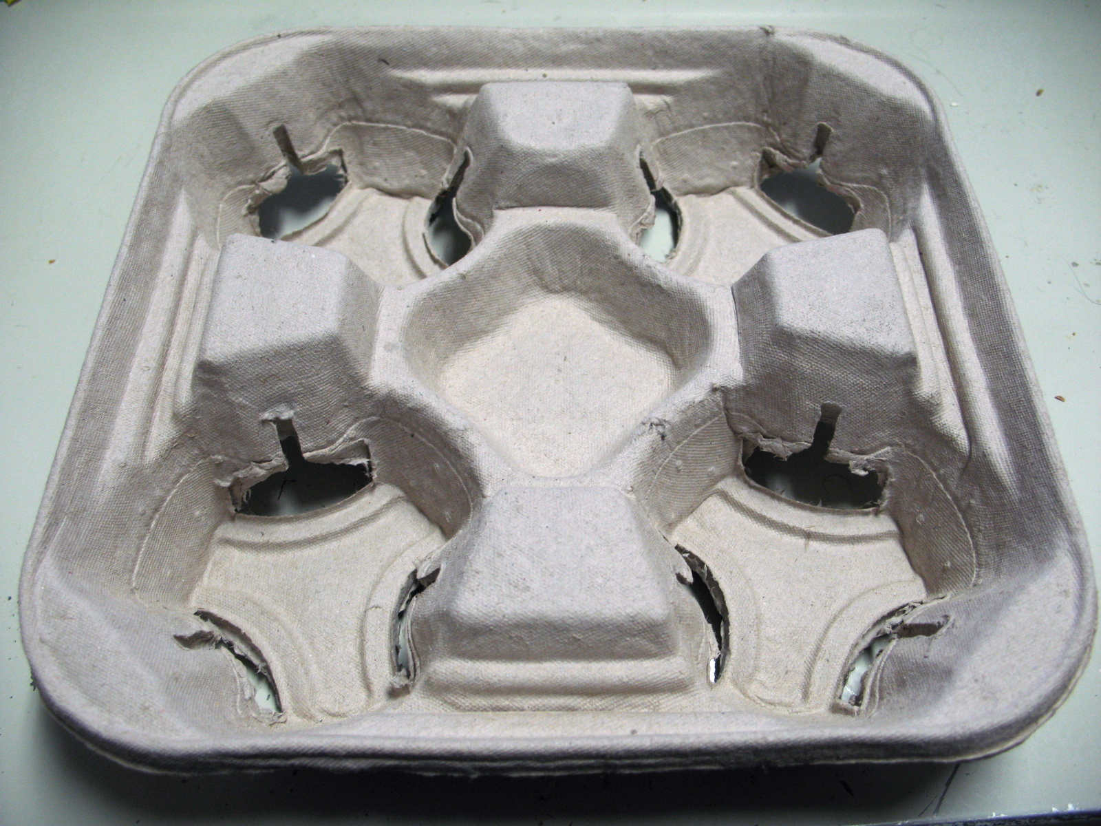 A drink tray constructed from transfer-molded wood-fiber pulp, manufactured by Huhtamaki. top view. This object bears no logos or trademarks. Photographed with a Canon Powershot A640.